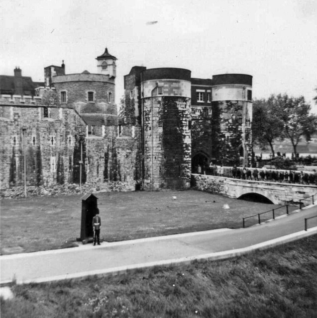 Tower of London, taken 1968 Historic image looking into the grassed-over moat with the sentry on duty by the sentry box. Like the image of Tower Bridge, it is really noticeable how dirty this whole structure was compared with how it looks now.